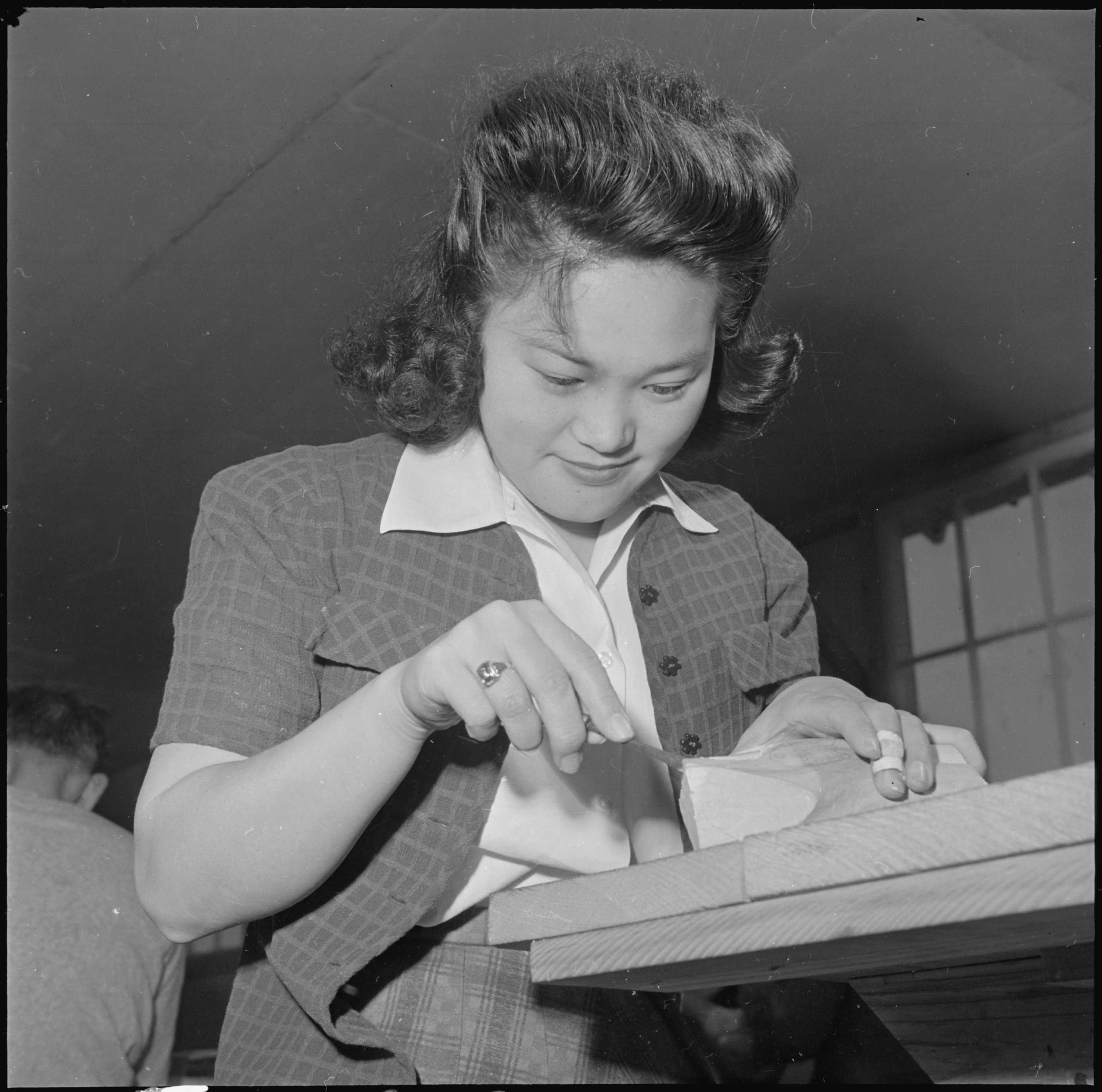 Scope and content: The full caption for this photograph reads: Rohwer Relocation Center, McGehee, Arkansas. In the wood carving class, at the Rohwer Center, this yung forme Californian, begins work on a new piece of Arkansas birch. Classes teaching arts and crafts, which enable center residents, former west coast persons of Japanese ancestry, to provide art objects for their barracks, are very popular.